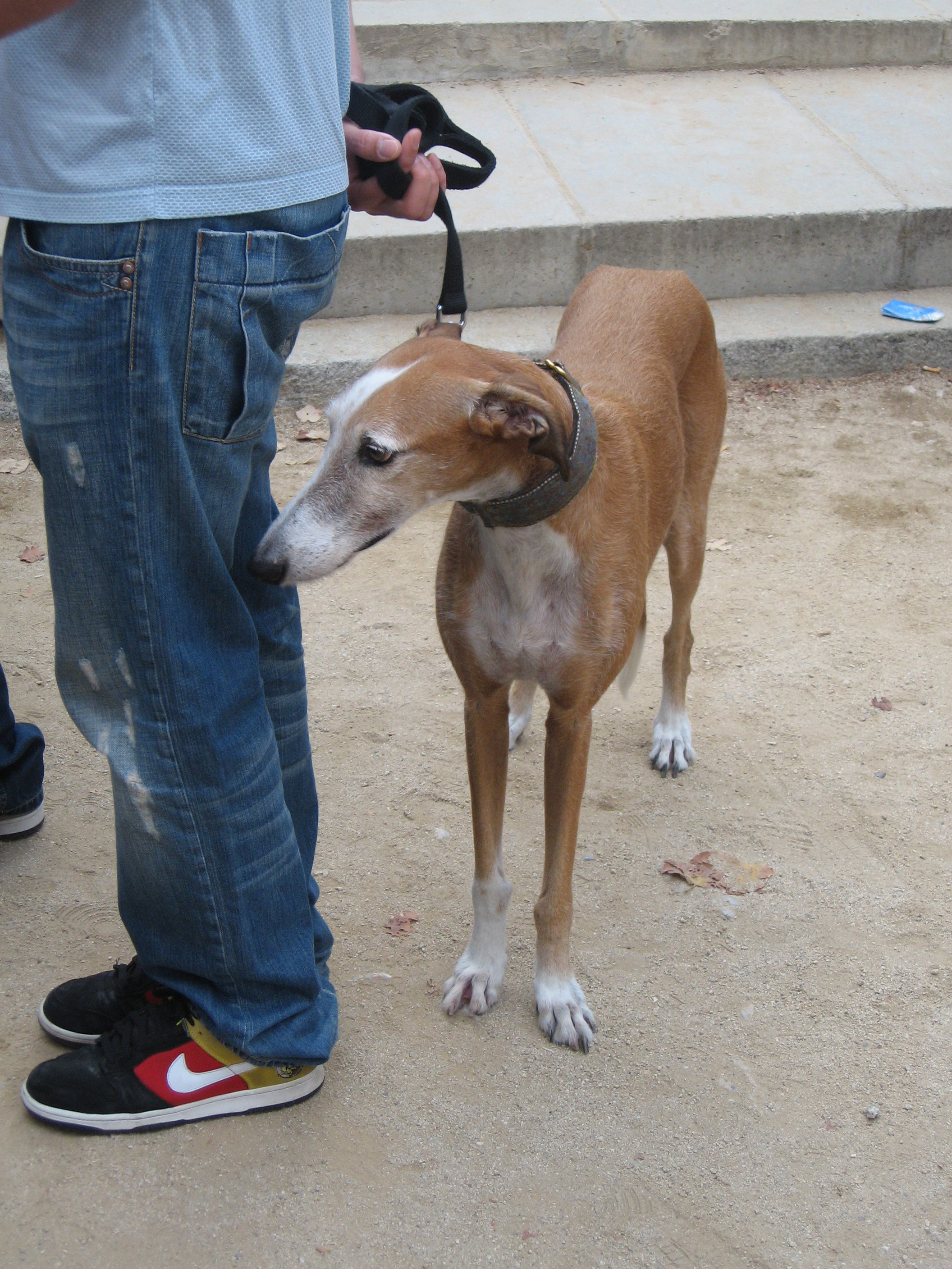 Picture of a Spanish Galgo (Galgo Español). Parc de la Ciutadella. Barcelona, Catalunya.